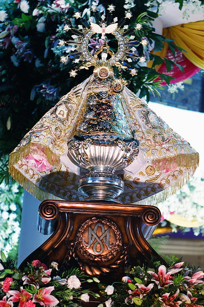 The original image of Our Lady of Peñafrancia during the Tercentenary Celebration of the devotion at Naga Metropolitan Cathedral.